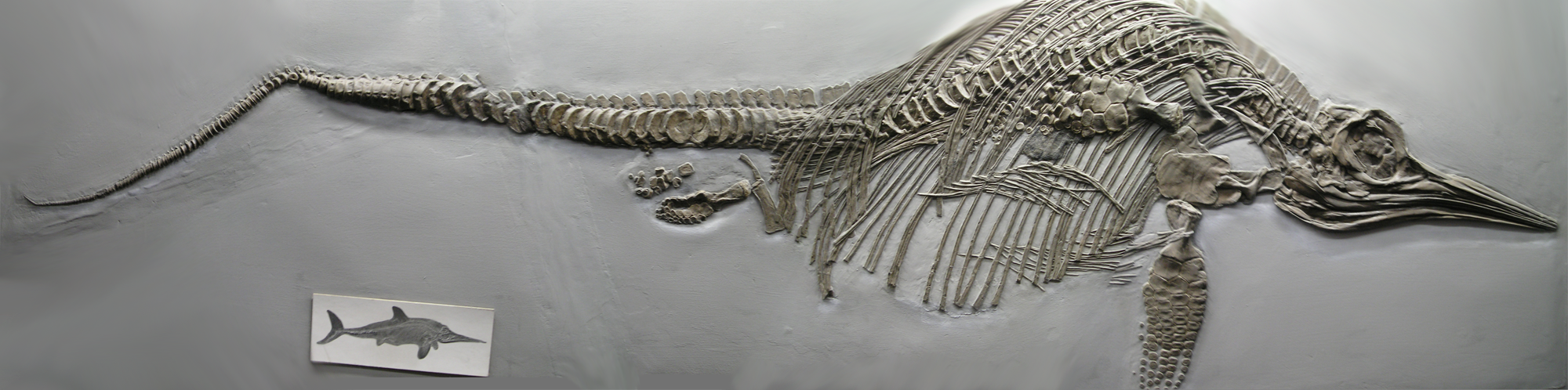 Stenopterygius skeleton on display at the old Dinosaur Gallery at the Royal Ontario Museum, Toronto. Picture taken on the final day the gallery was open, September 1, 2005.